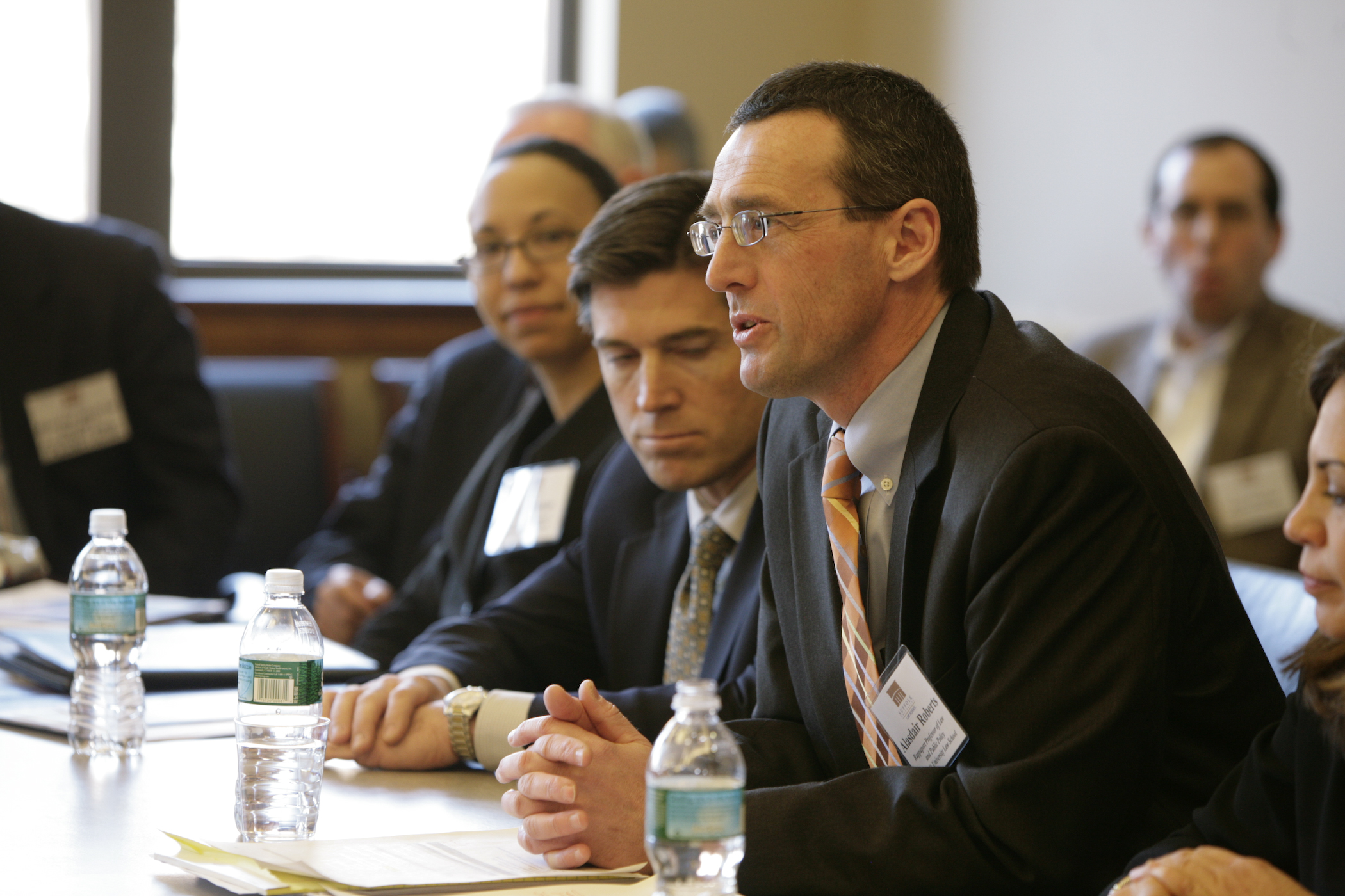 Alasdair Roberts, with Ben Clements, Chief Legal Counsel, MA Office of the Governor and other participants at a Rappaport Center roundtable on ethics and state lobbying reform.